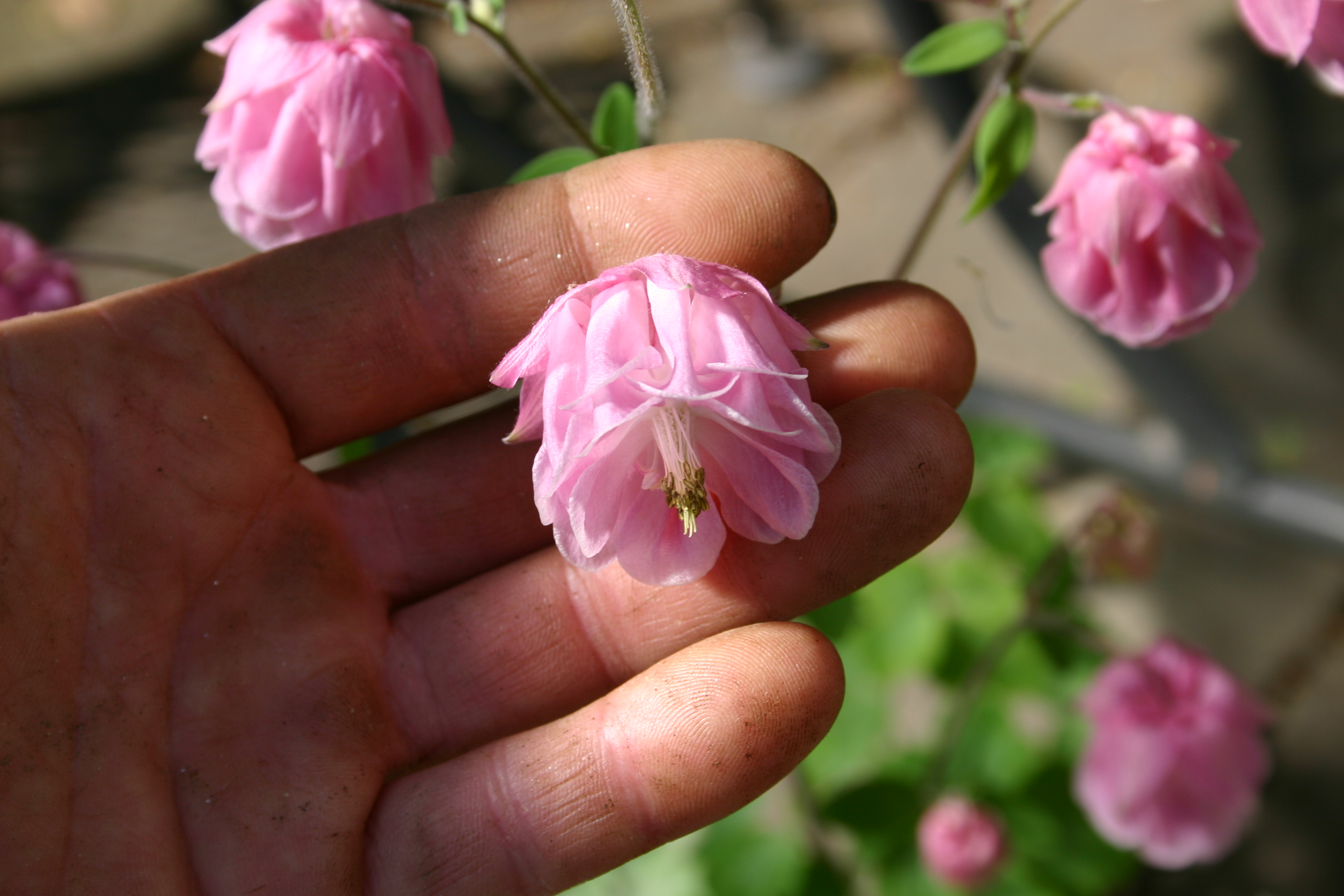 Double flower of Aquilegia vulgaris (chance seedling)